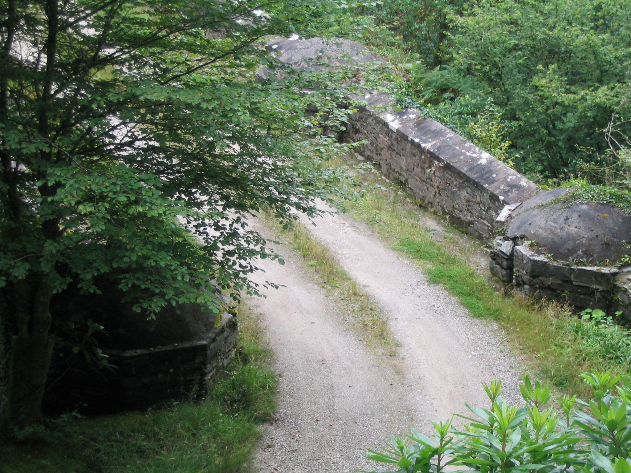 A photograph of the bridge leading to Dunans Castle. I took this photograph.